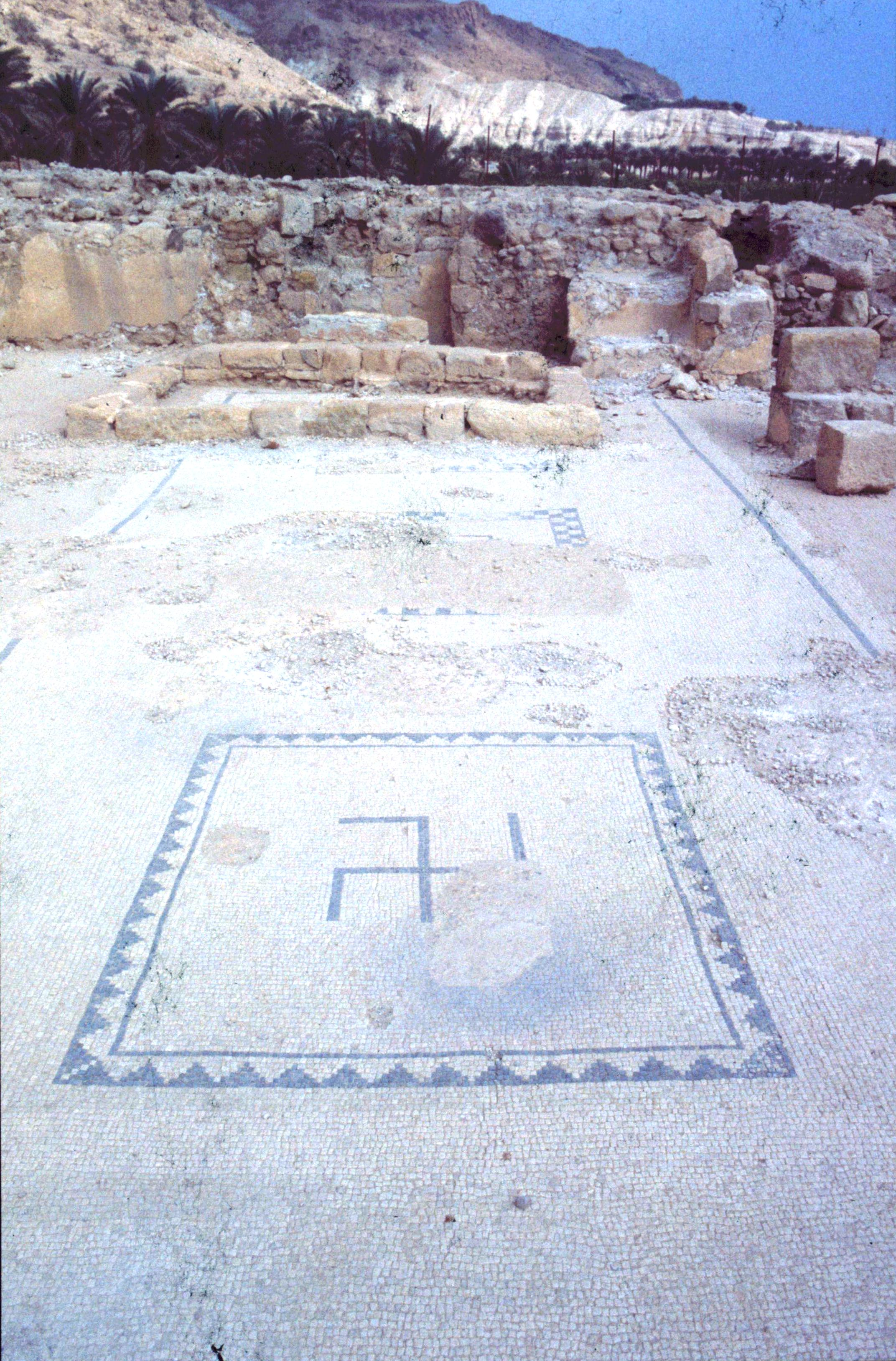 Mosaic at the synagogue at Ein Gedi